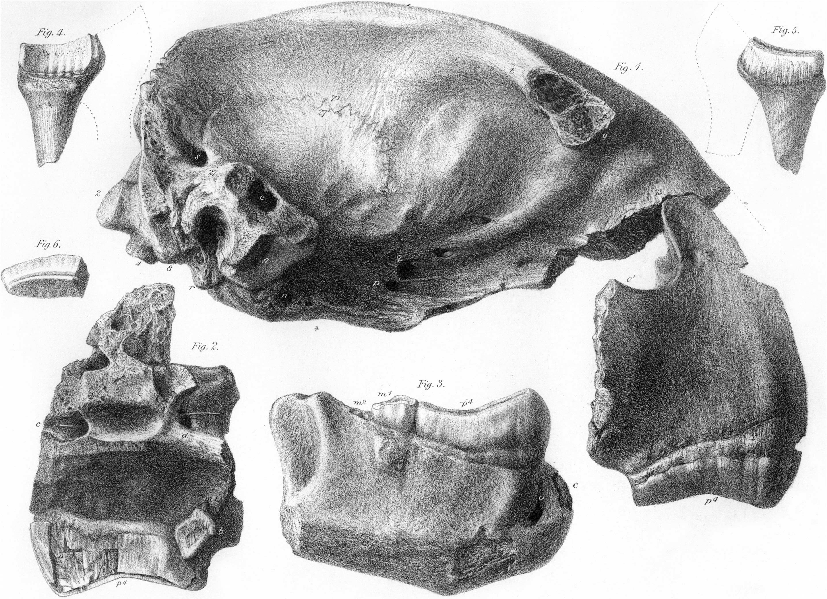 The fragmentary skull of Thylacoleo from Owen’s paper “On the Fossil Mammals of Australia. Part I. …”